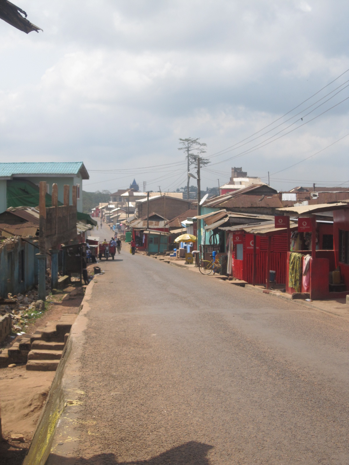 A street in Aburi, Ghana, in November, 2010